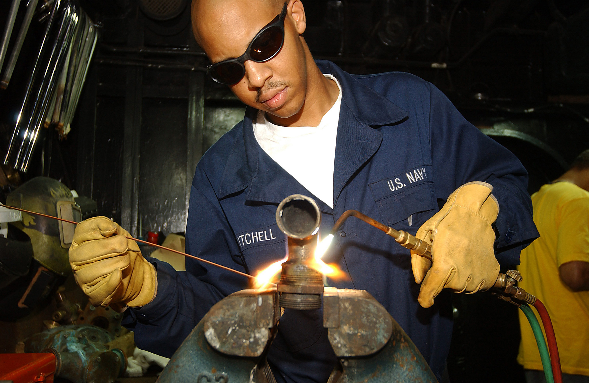 At sea aboard USS George Washington (CVN 73) Nov. 21, 2002 -- Fireman Ashely Mitchell from Charleston, S.C., brazes a fitting in the ship's pipe shop. Washington is homeported in Norfolk, Va., and is nearing the end of a scheduled six-month deployment after completing combat missions in support of Operations Enduring Freedom and Southern Watch. U.S. Navy photo by Photographer's Mate Airman Joan Jennings. (RELEASED)